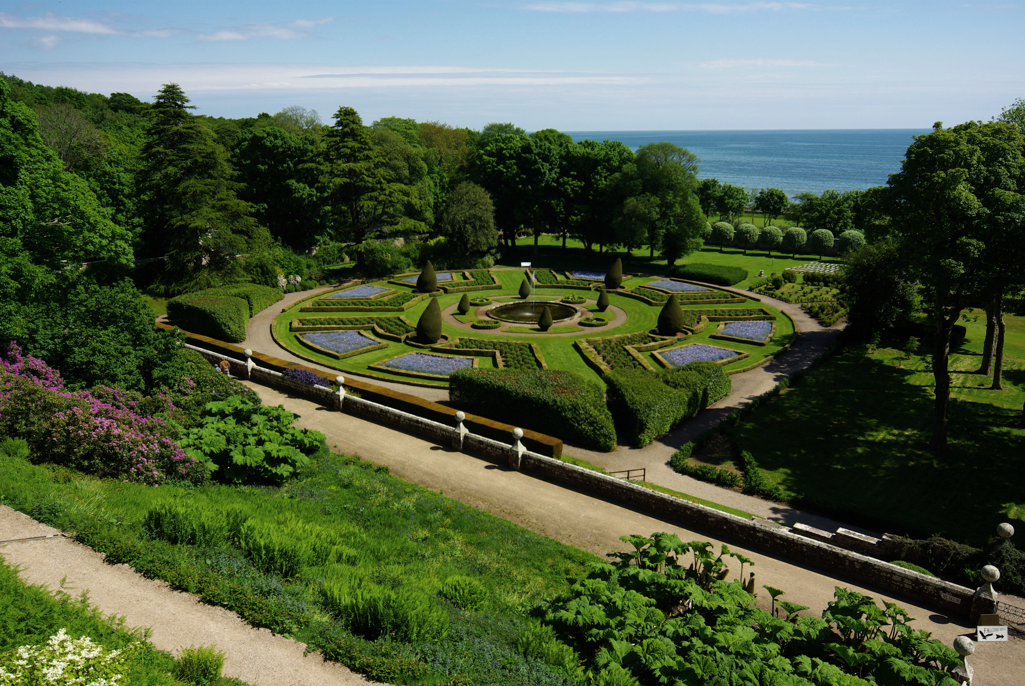 Dunrobin Castle gardens, Sutherland, Scotland.